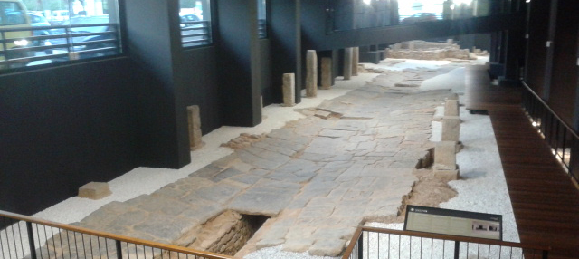 Image of the Roman road from the archaeological site Via the Portic (Sagunto)